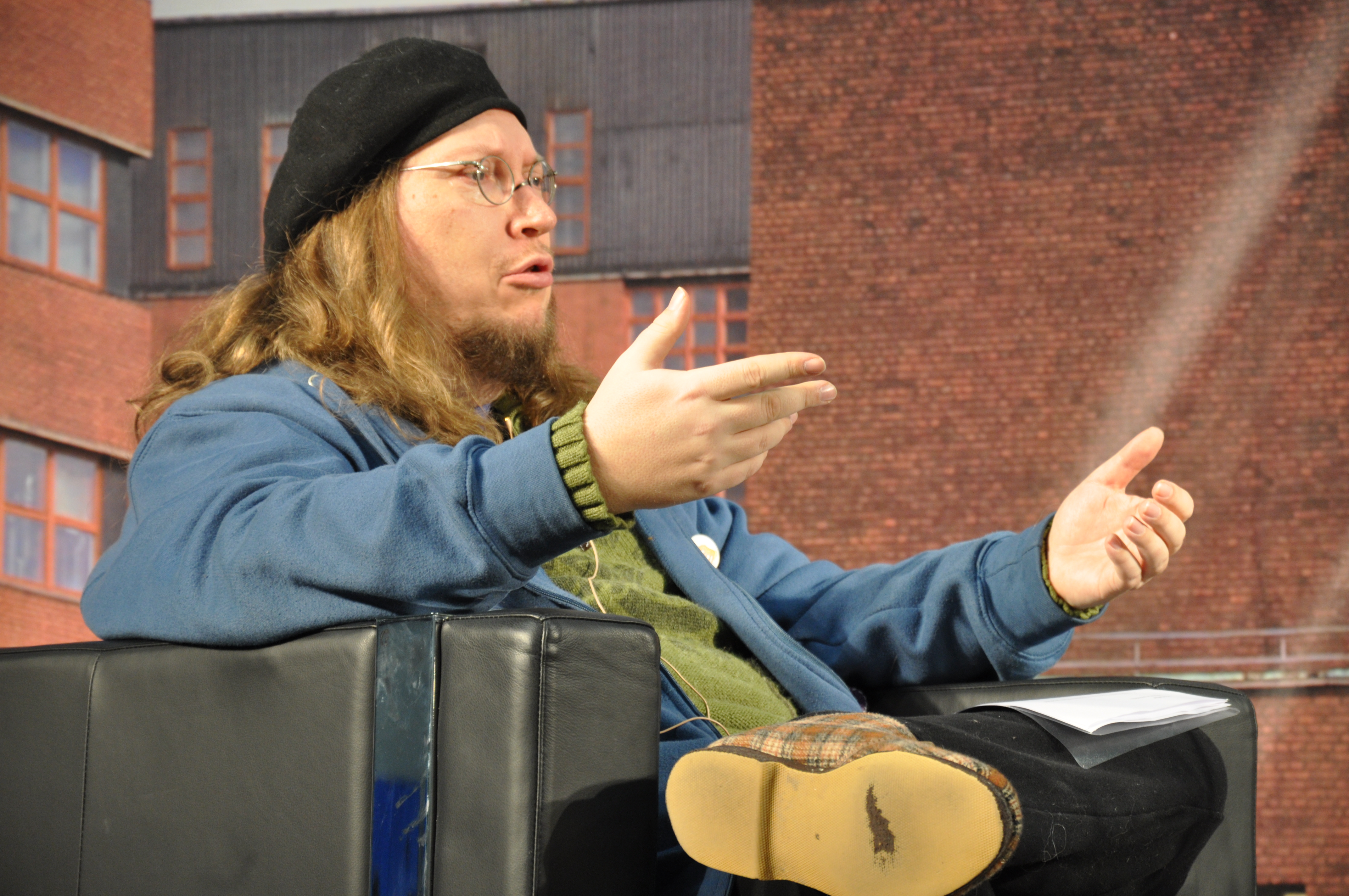 Finnish writer Harri István Mäki at the Tampere Book Fair 2009.